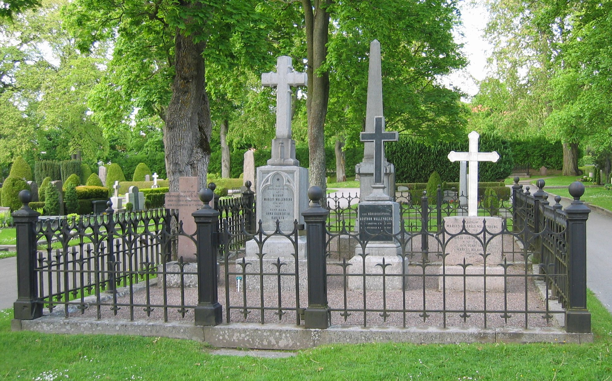 Wallenberg family grave at Linköping city cemetary.